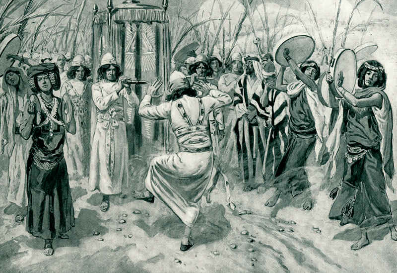 "David danced before the LORD with all his might; and David was girded with a linen ephod"; 2 Samuel 6:14; watercolor circa 1896–1902 by James Tissot